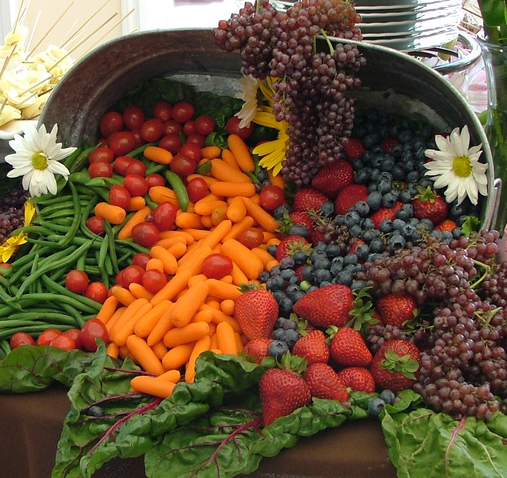 A wedding cornucopia